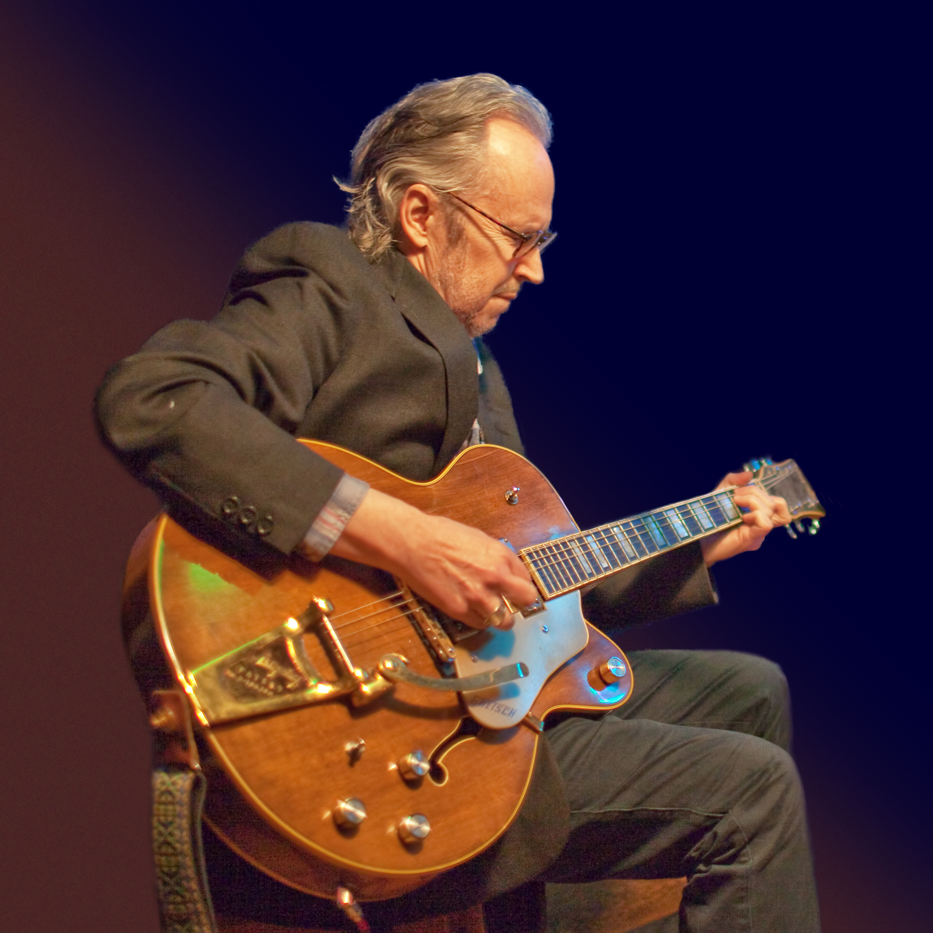 Anders F Rönnblom with the Incredible Gretsch Brothers at Big Ben Stockholm February 2013